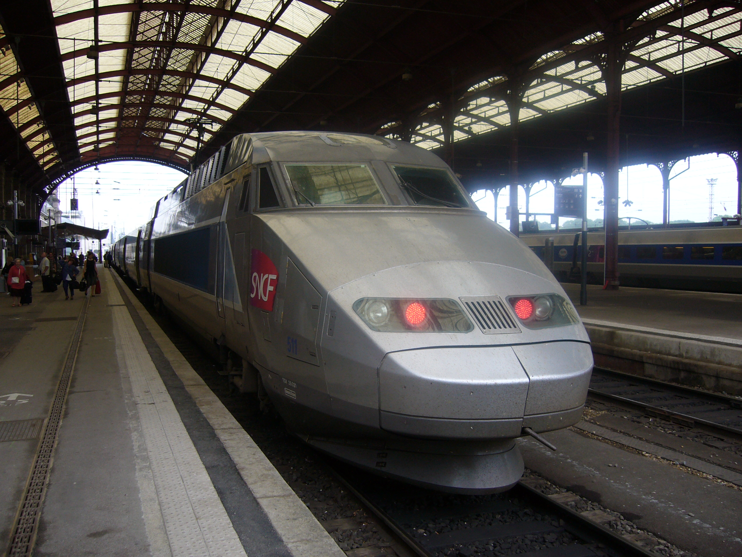 TGV in the Strasbourg train station